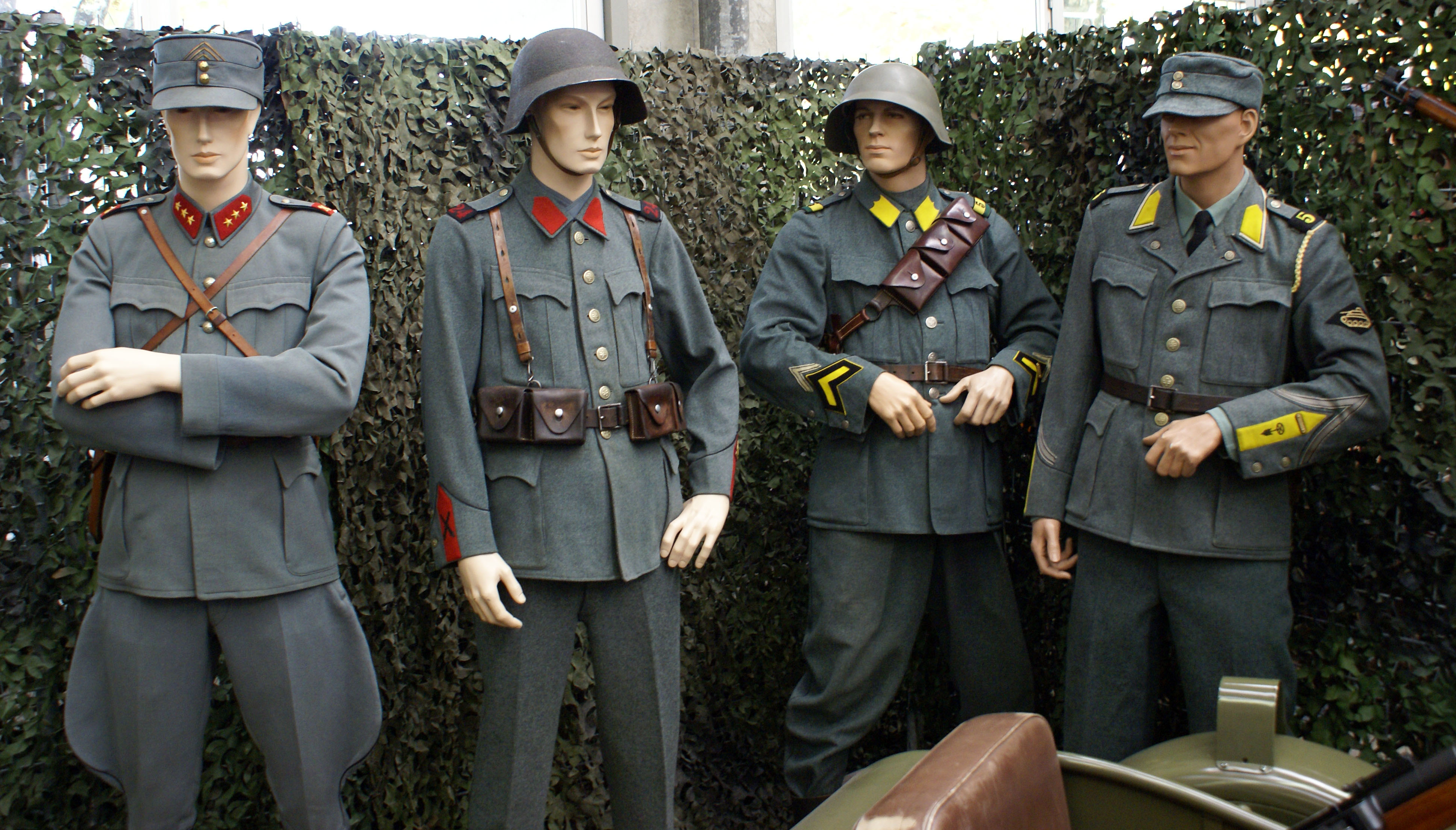 Swiss Army uniforms, Swiss Army Museum. From left to right: Artillery captain, field blouse 1940 Fortress canoneer, 1943 Bicyclist private, 1936 Tank corporal, 1940